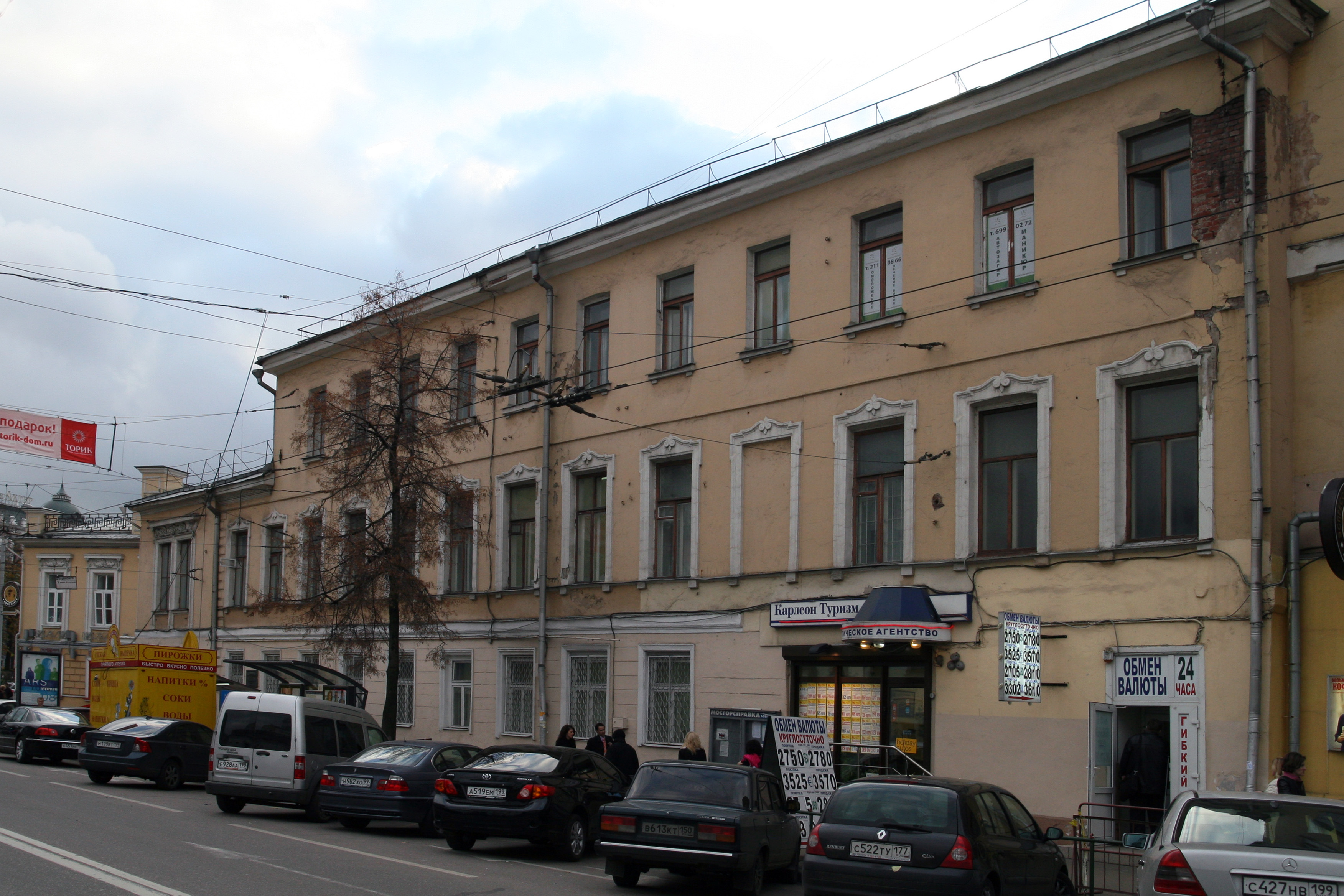 Moscow Malaya Dmitrovka Street 1